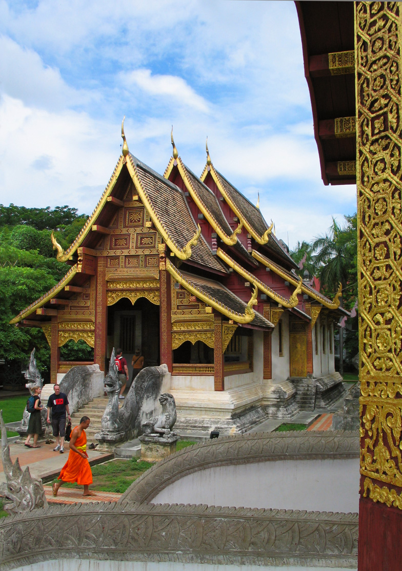 Viharn Lai Kham, Wat Phra Singh, Chiang Mai, northern Thailand